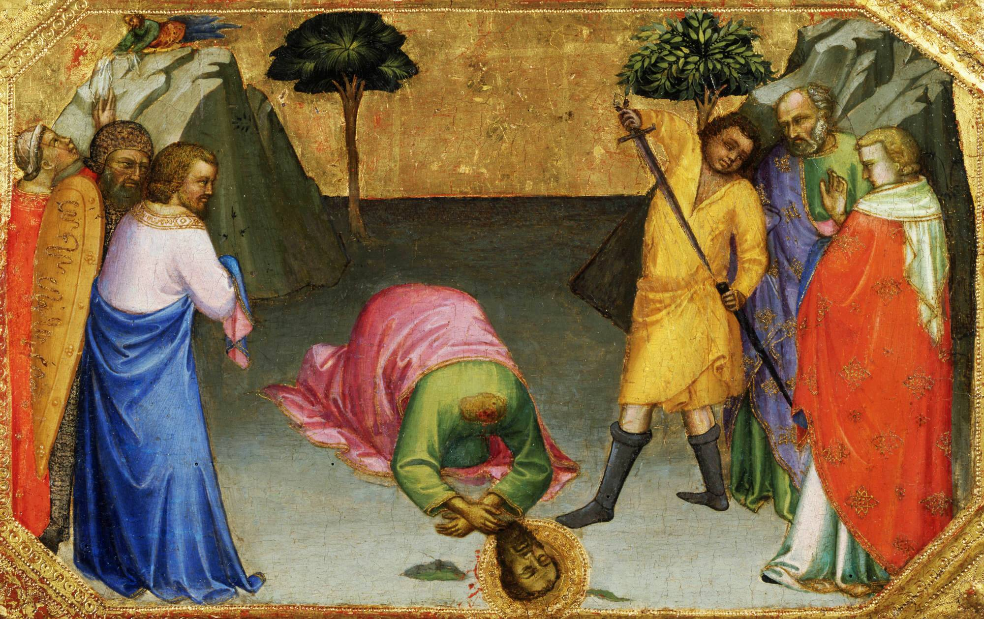 Lorenzo Monaco, Beheading of Saint Paul, 1398–1400 Princeton University Art Museum